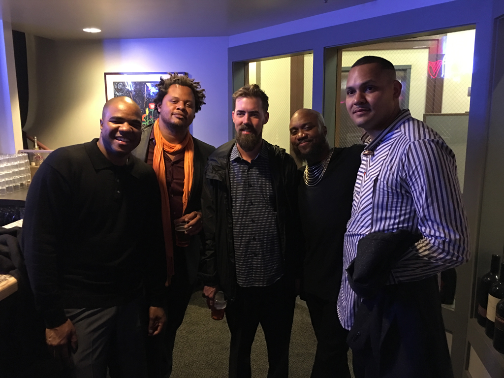 Josh Rawlings, Seattle Musician, after his performance at the Seattle Upstream Music Festival, curated by Quincy Jones.